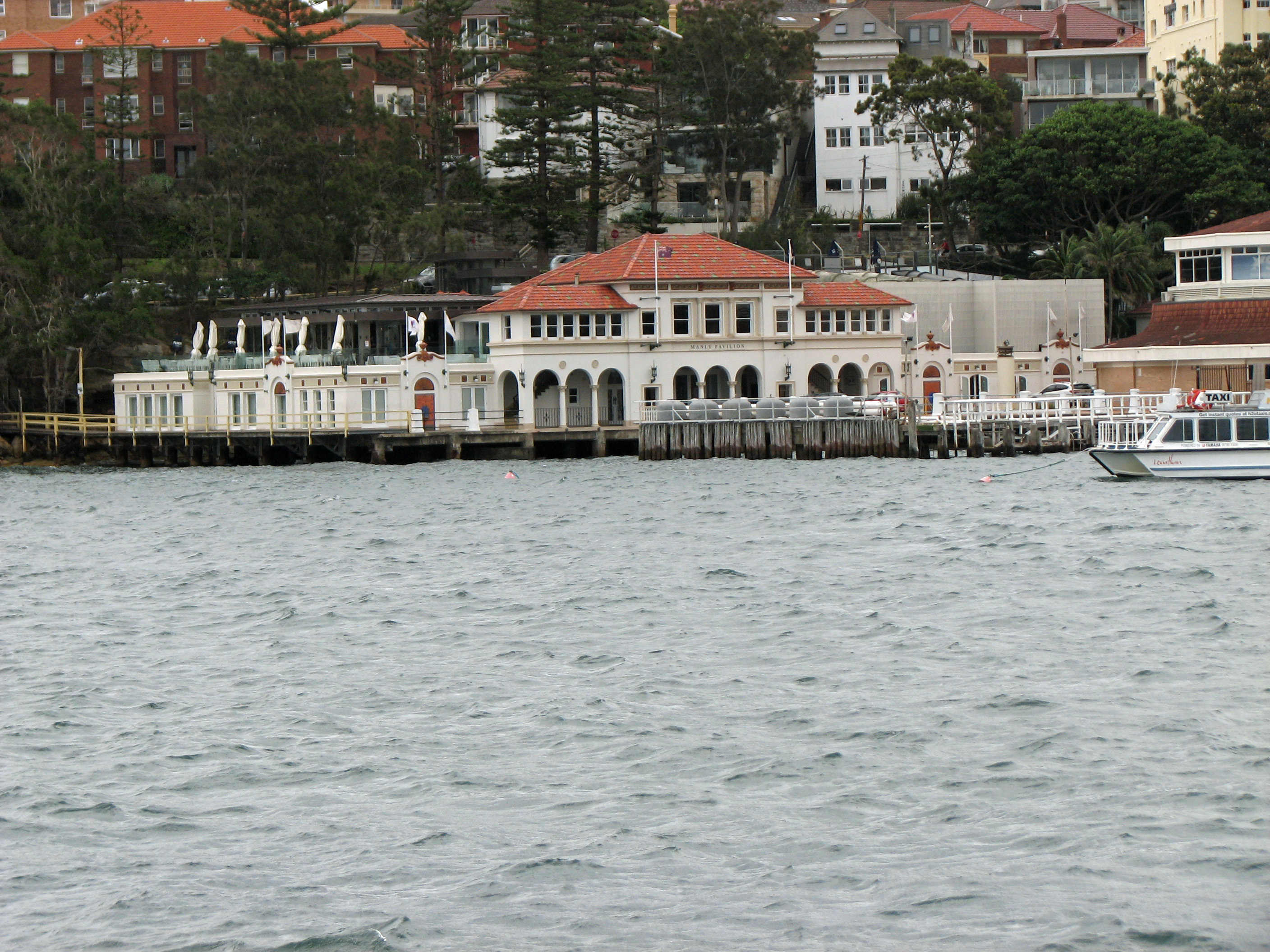 The Manly Cove Pavilion is a Heritage Listed Building at Manly, New South Wales